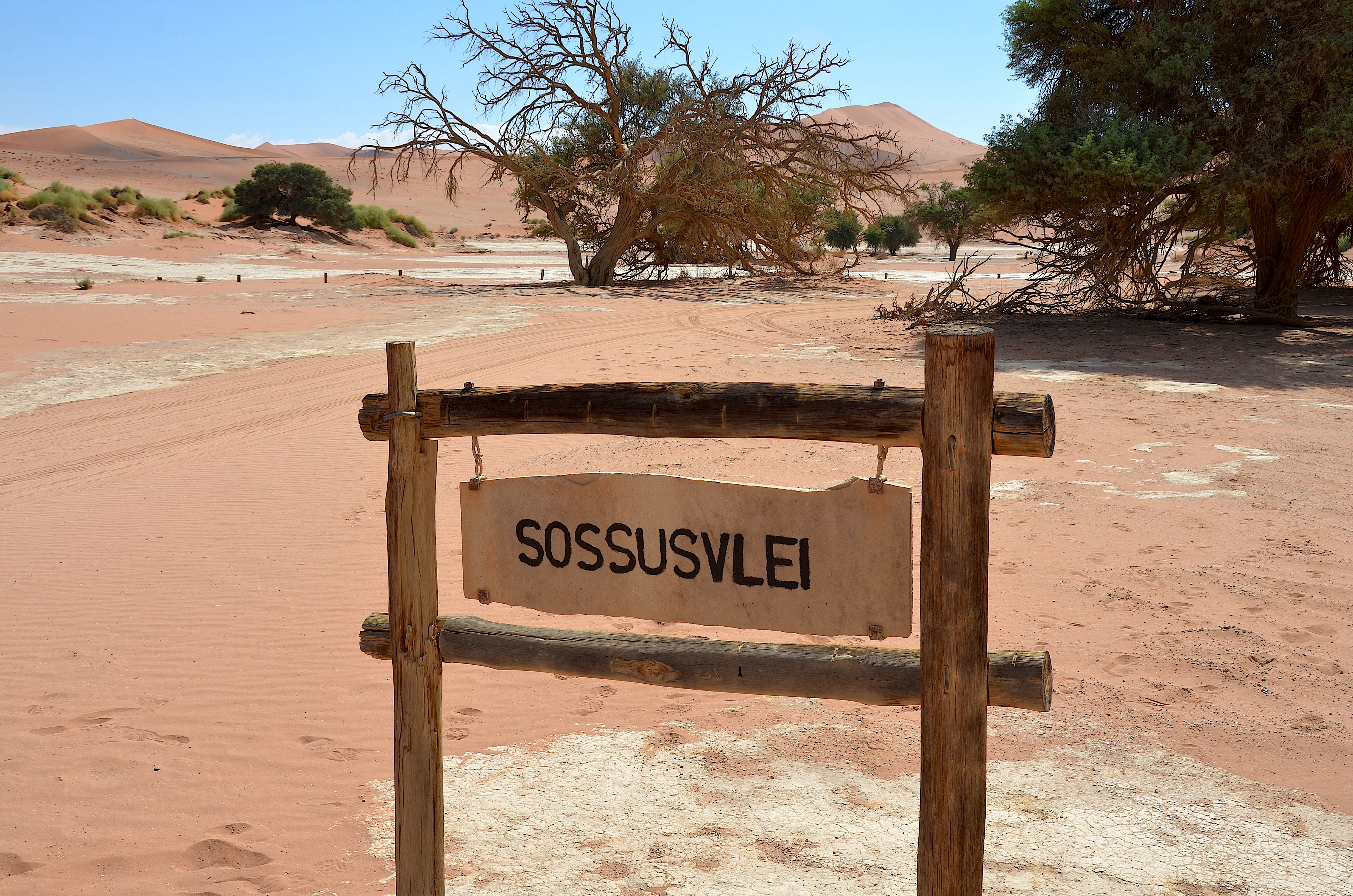 Sossusvlei sign in Namibia (2017)